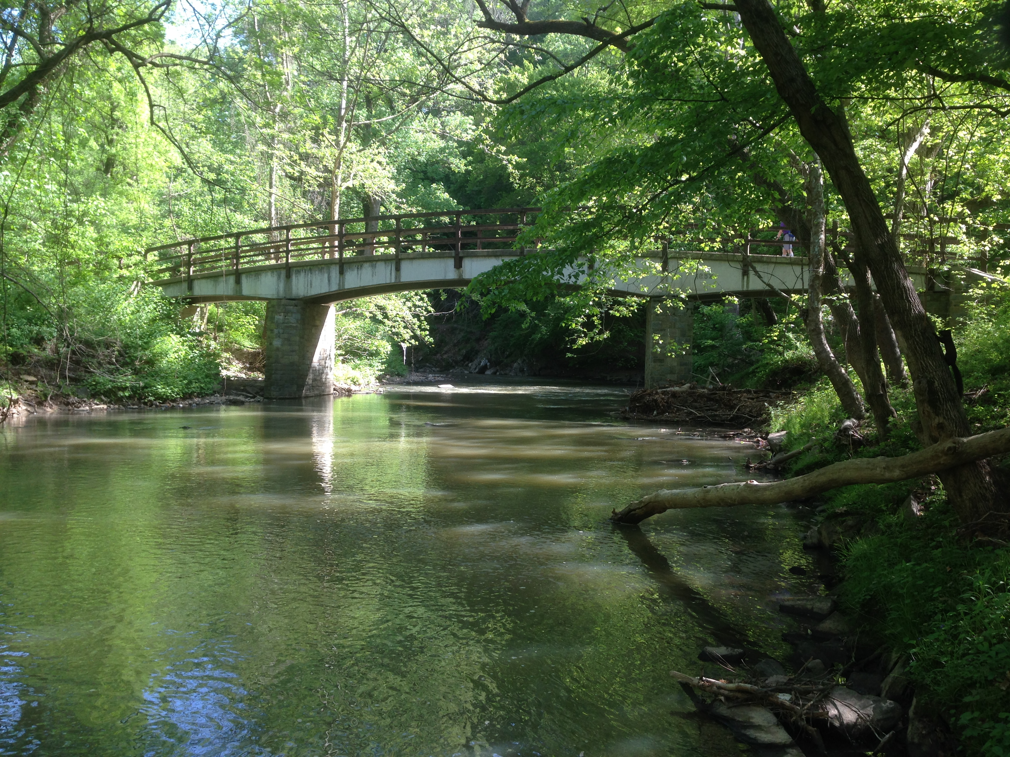 Footbridge near Jusserand Memorial over Rock Creek in Washington, D.C. in 2015